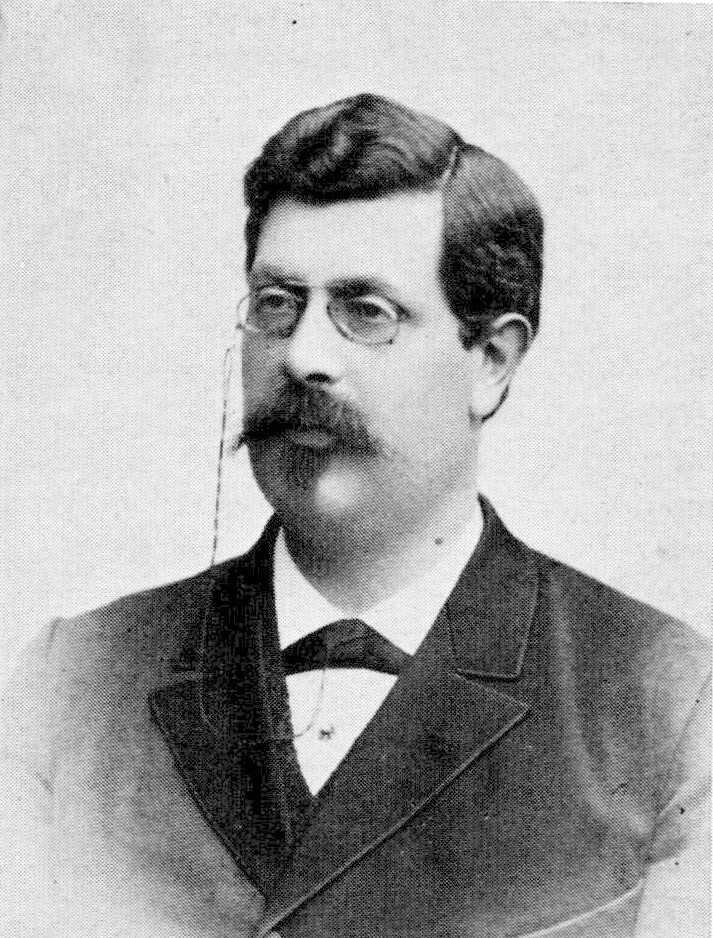 Swedish politician and hofmarschall Carl Klingspor (1841-1911)